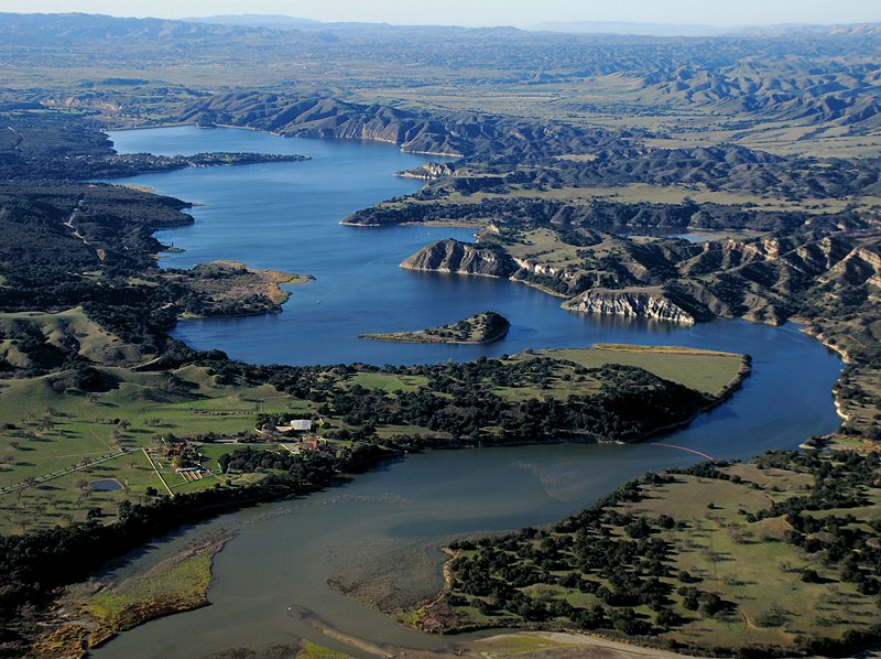 Aerial view of east end of Lake Cachuma, looking over Santa Ynez River toward Bradbury Dam.